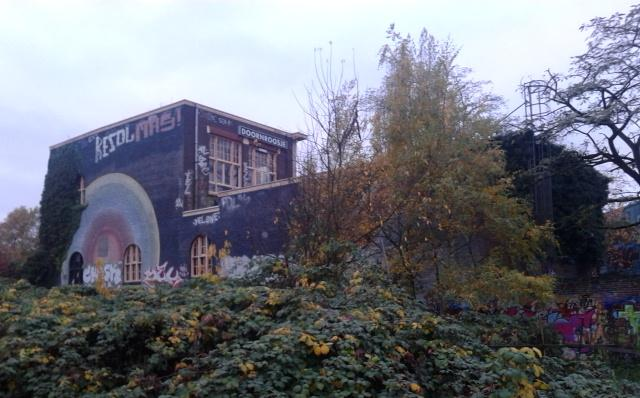 Concert venue Doornroosje in Nijmegen, backside